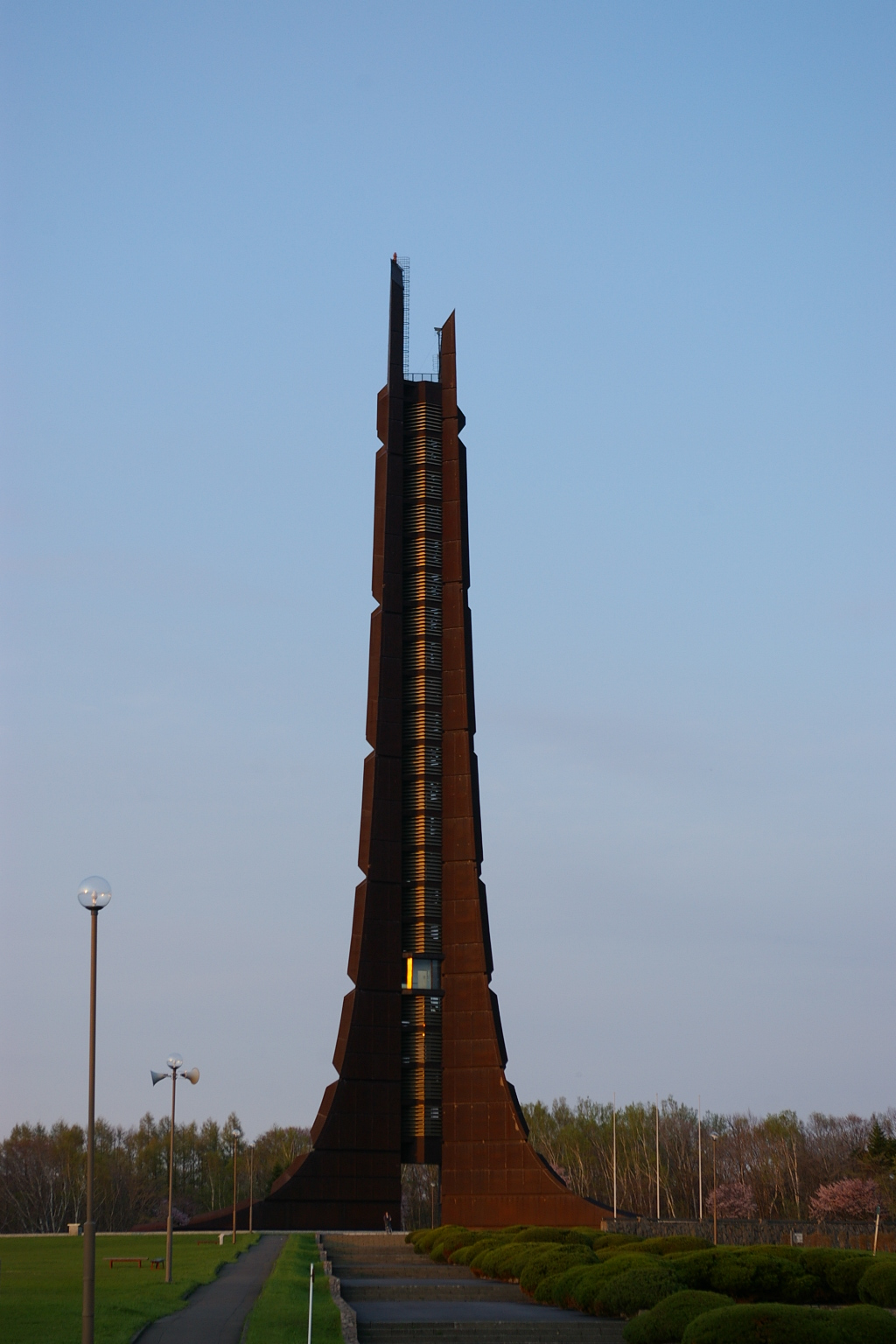 The Hokkaido 100-year commemoration which carries out the whereabouts into the Atsubetsu ward, Sapporo city Nopporo forest park.